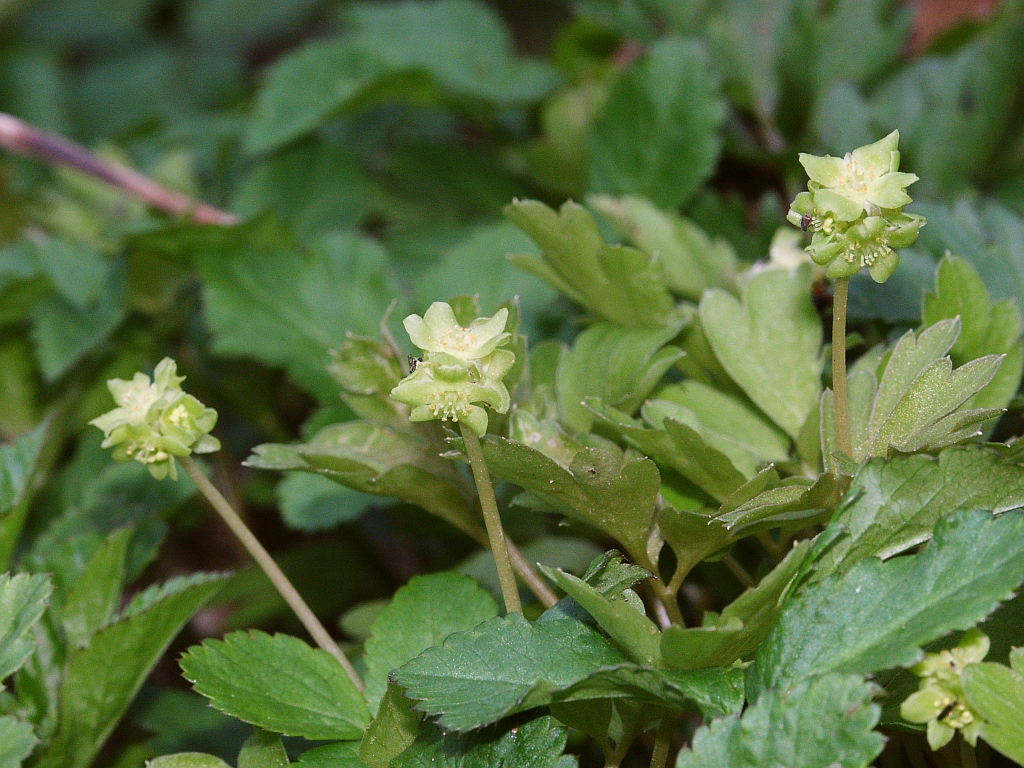 Adoxa moschatellina, Hohenloher Land, Germany